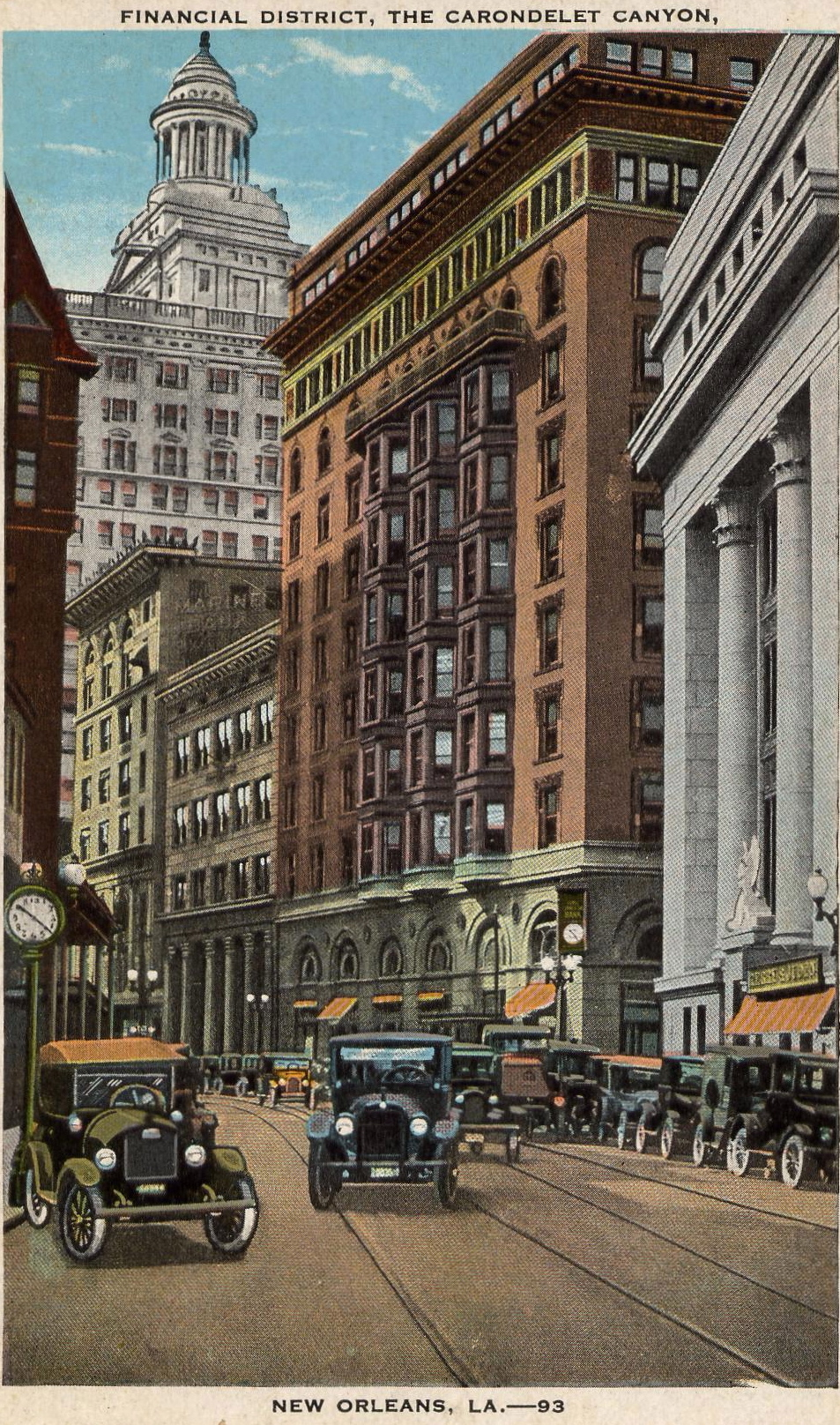 New Orleans postcard, "Financial District, The Carondelet Canyon". View of Carondelet Street up from Canal Street, with high-rises including the Hibernia Bank building and 1920s automobiles visible. Text on back of card: "More money is involved in the gigantic transactions which take place in the buildings shown in this picture, the Carondelet Canyon of New Orleans, than in any other center of the South. The buildings on the right are (reading from the foreground backward) -- Federal Reserve Branch, Canal-Commercial Bank (New Orlean's [sic] biggest), Marine Bank, Cotton Exchange and Hibernia Bank."